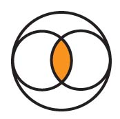 Mandorla symbol